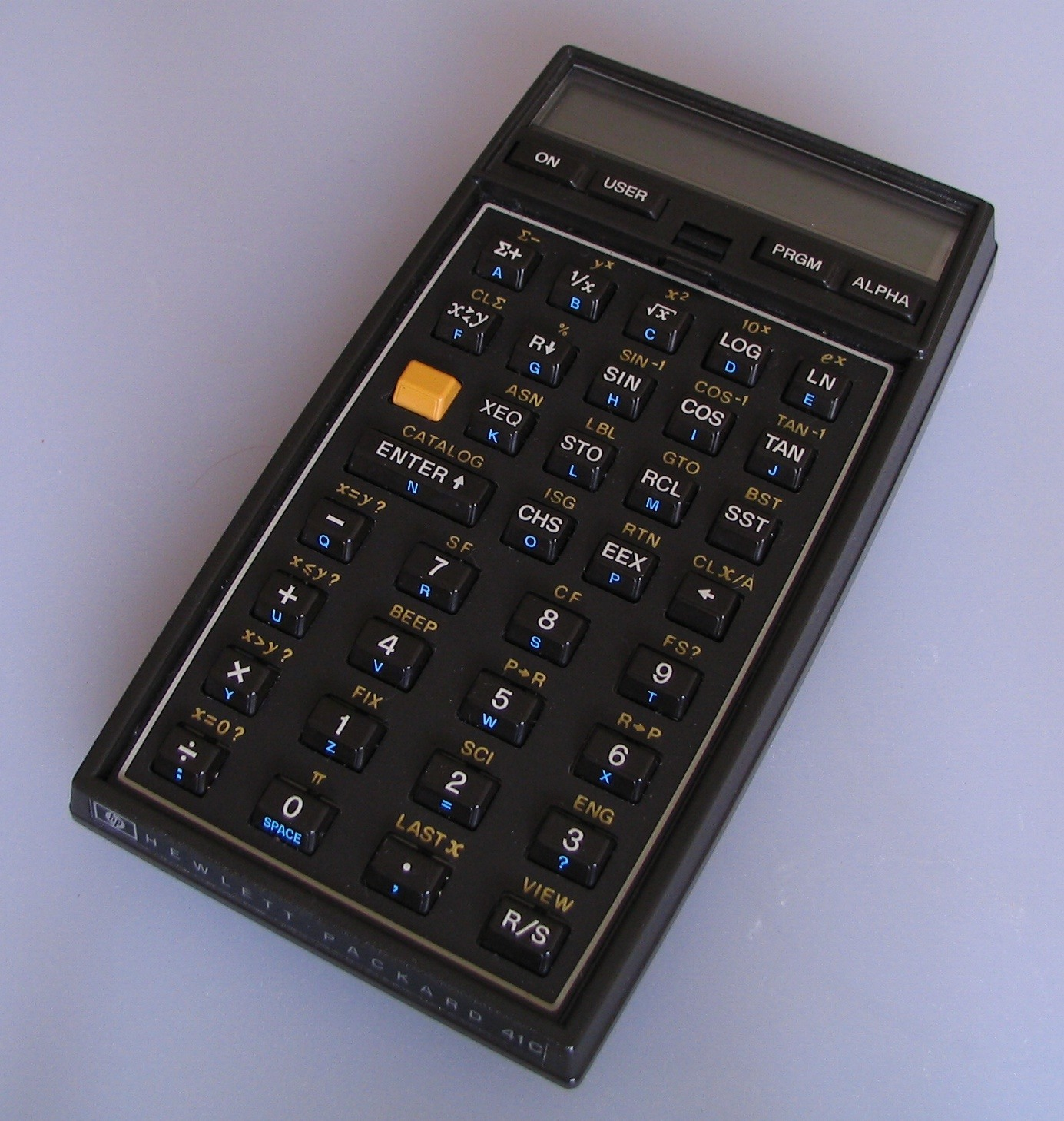 Programmable calculator HP-41C